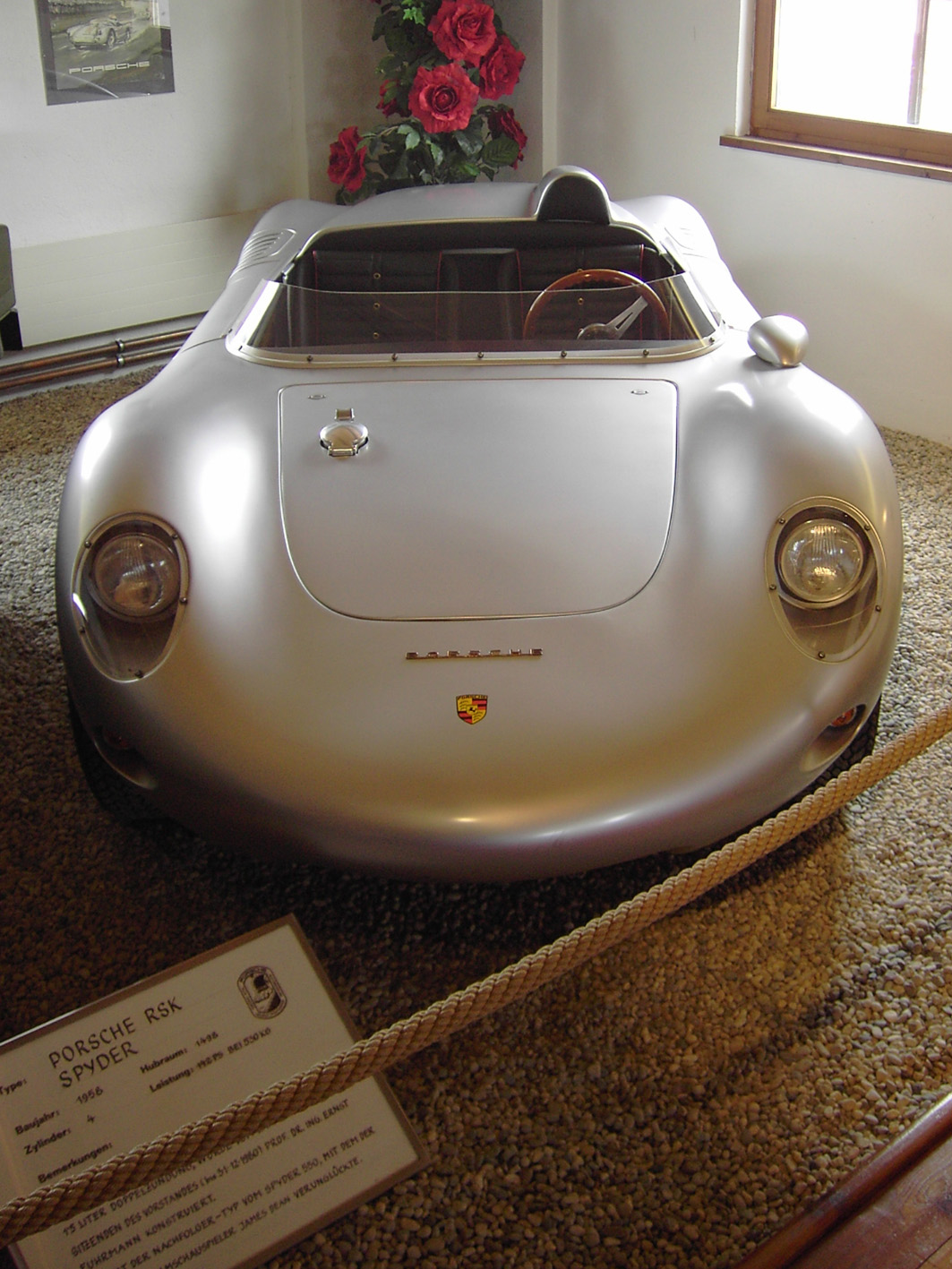 Porsche 718 RSK Spyder (1958) Replica, 1,498 cc, 142 hp, Gmünd, Carinthia, Austria.